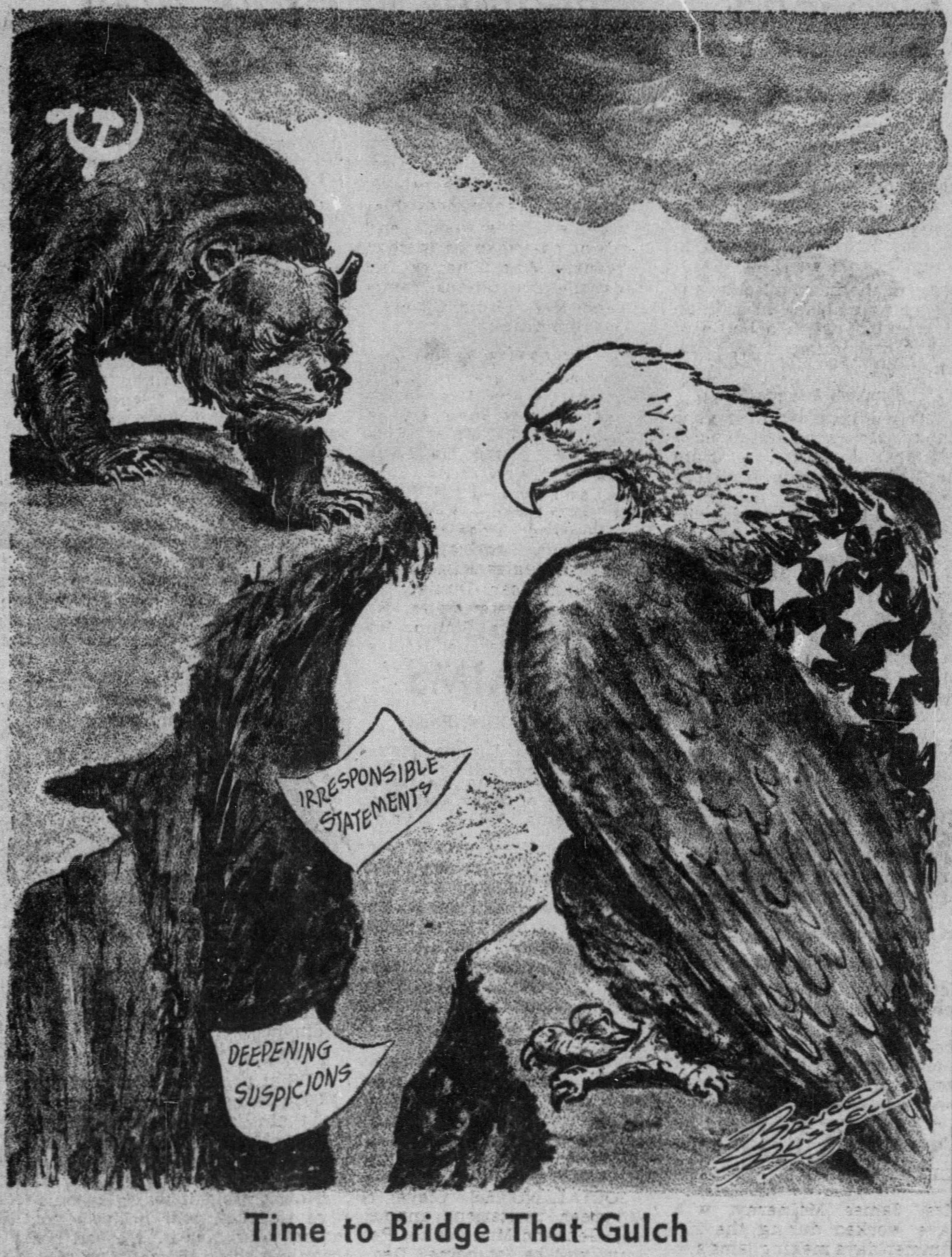 "Time to Bridge That Gulch", an editorial cartoon commenting on U.S.-Soviet relations in the aftermath of World War II. Winner of the 1946 Pulitzer Prize for Editorial Cartooning.